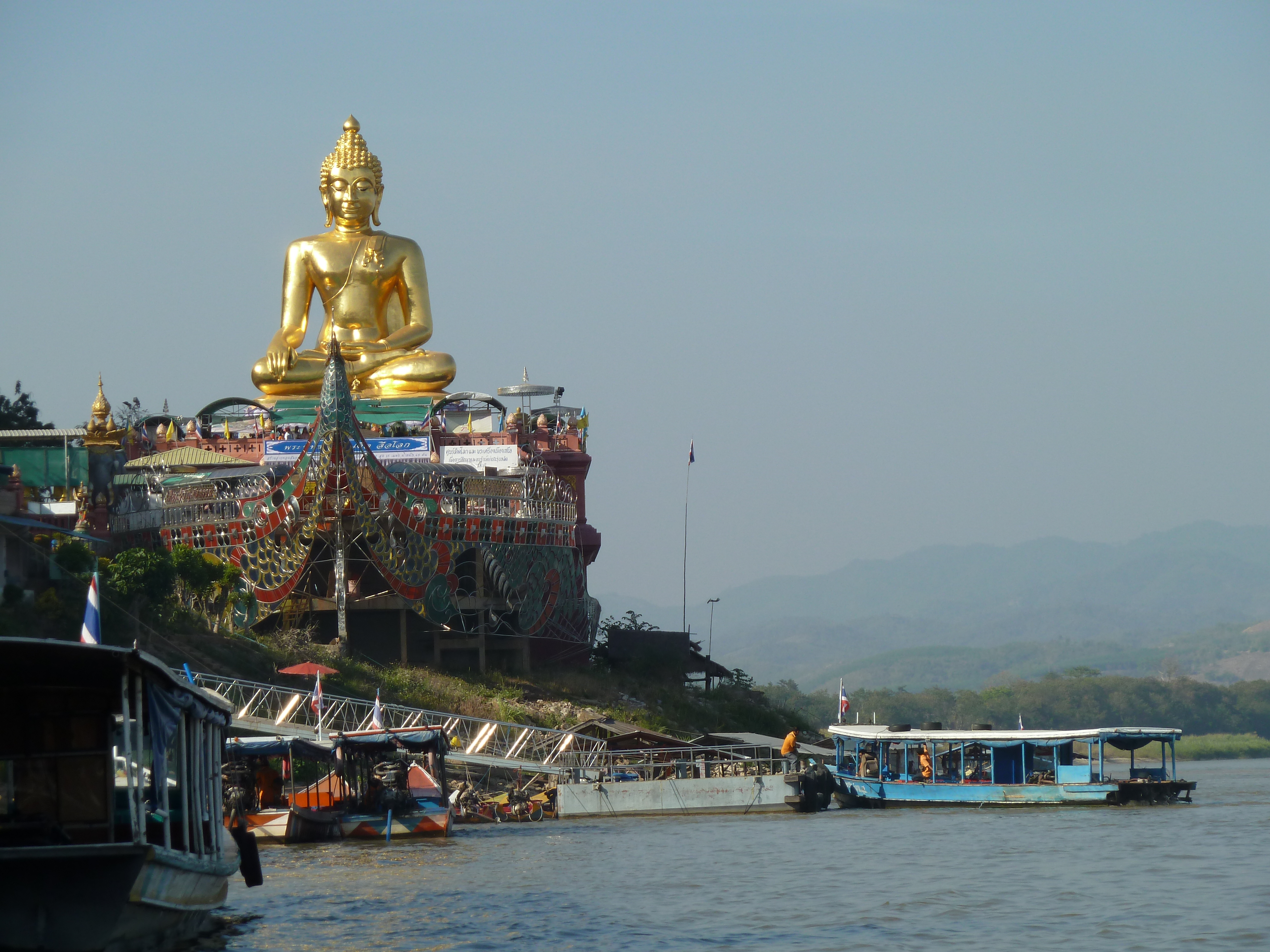 Mekong Golden Triangle, Mekong River at the meeting of the Laos, Myanmar and Thailand Borders